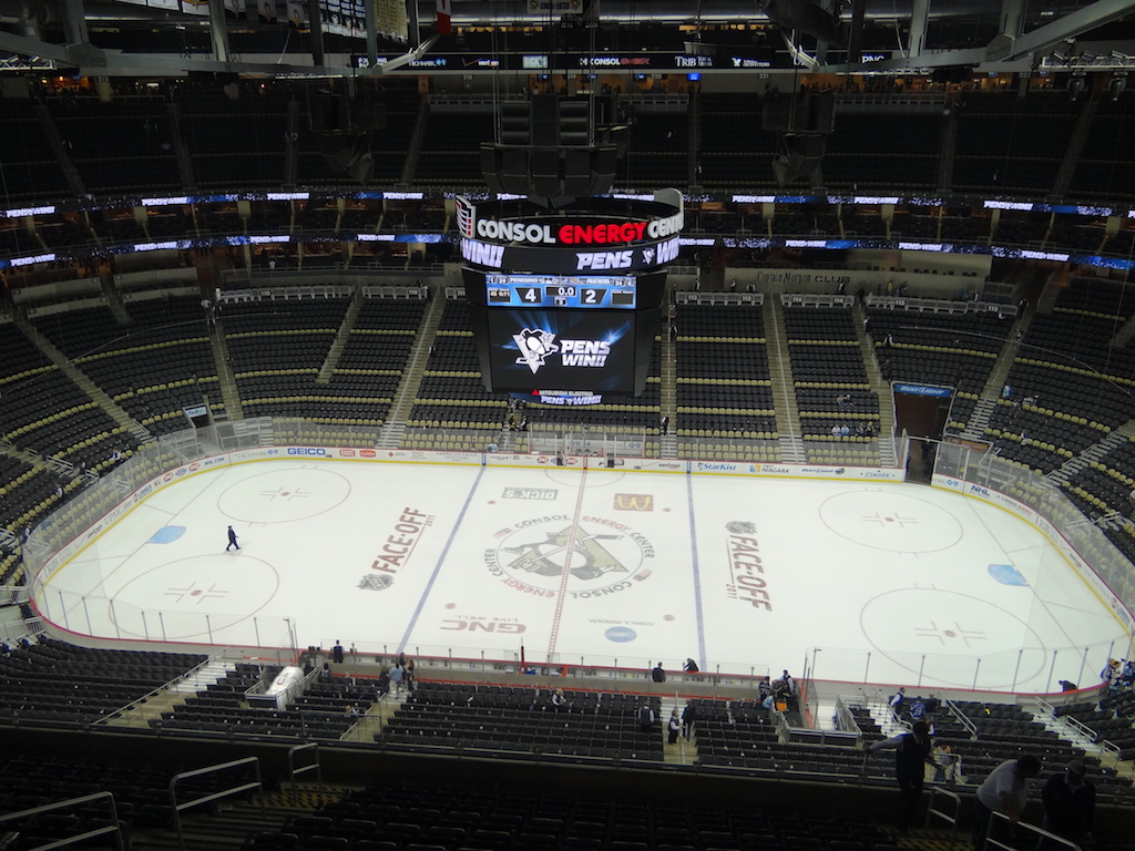 Consol Energy Center - Home of the Pittsburgh Penguins